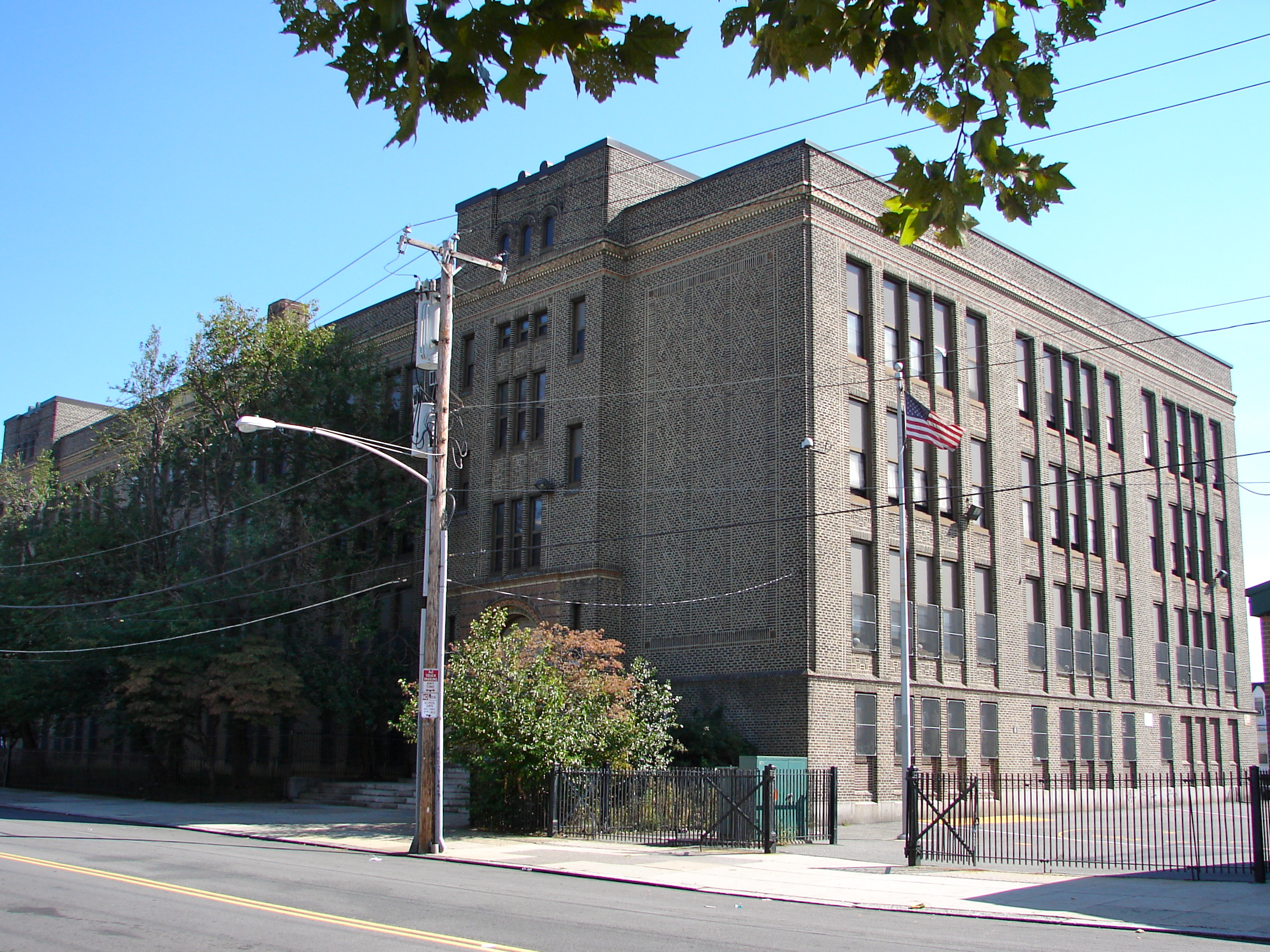 Francis Hopkinson School in Philadelphia on the NRHP since November 18, 1988. At 4001 L Street in the NE Philly neighborhood of Juniata. Named for a signer of the Declaration of independence.